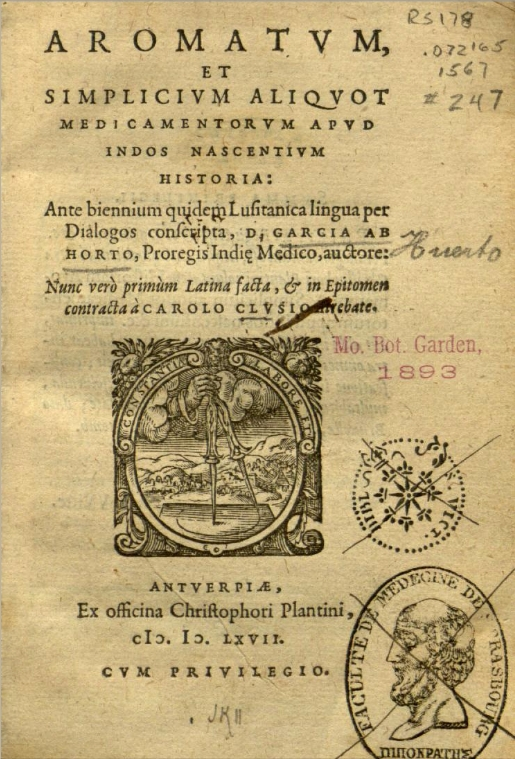 Title page of Carolus Clusius' translation of Garcia de Orta's Coloquios